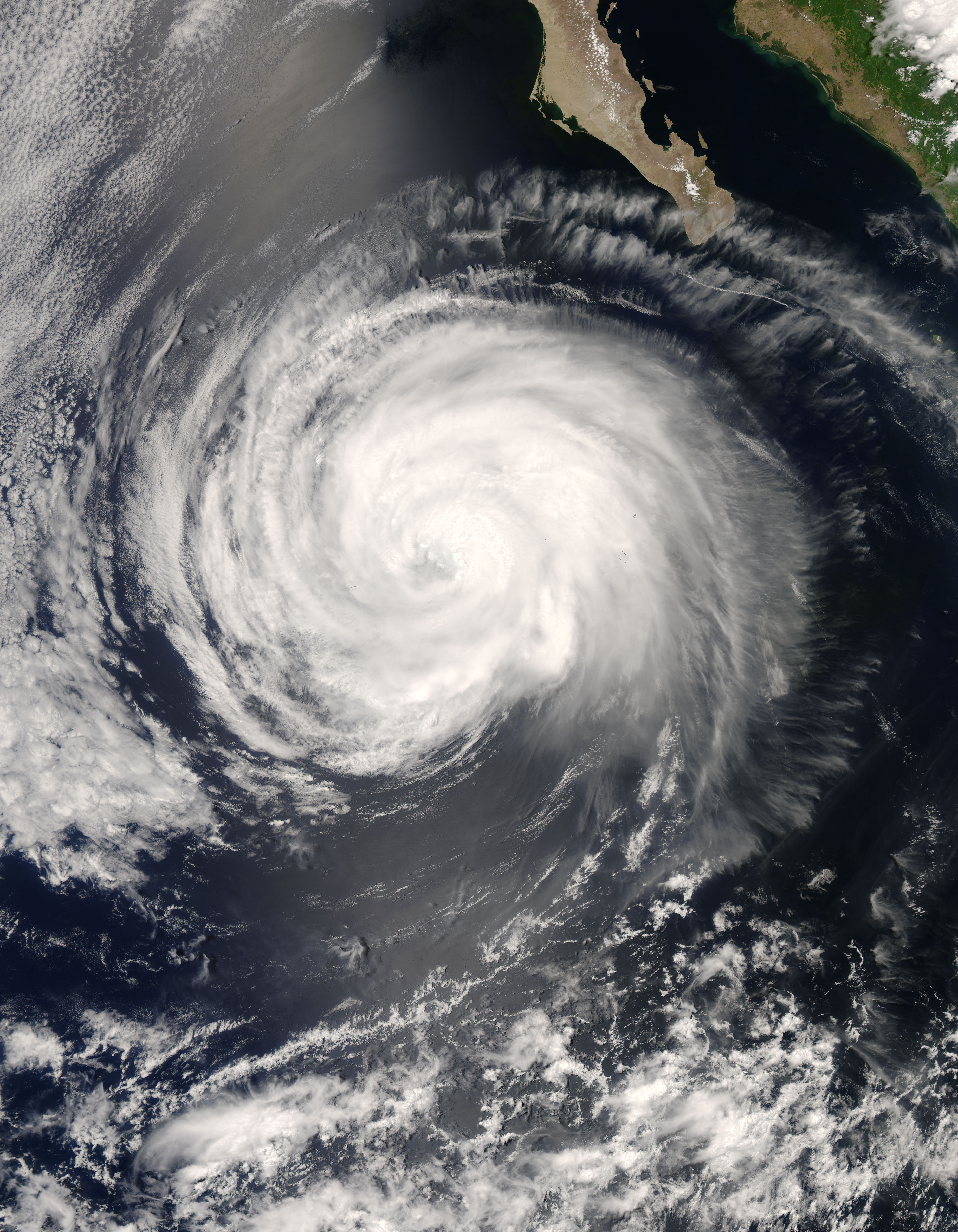 Fausto, which started out as a tropical storm way off the Pacific coast of Mexico, gained strength to become a category 2 hurricane. The storm probably reached its maximum intensity by July 20, 2008, with its highest sustained winds near 100 mph. The MODIS on the Aqua satellite captured this image on the same day, showing the storm much closer to land - right off the coast of Baja Mexico.